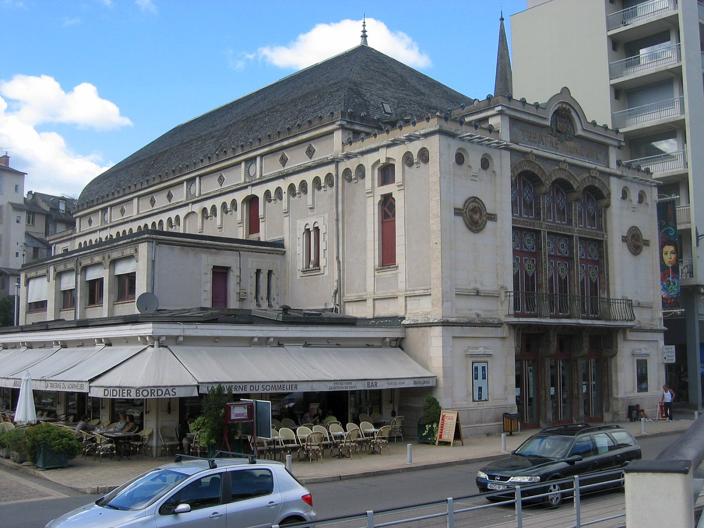 Tulle theatre by Anatole de Baudot